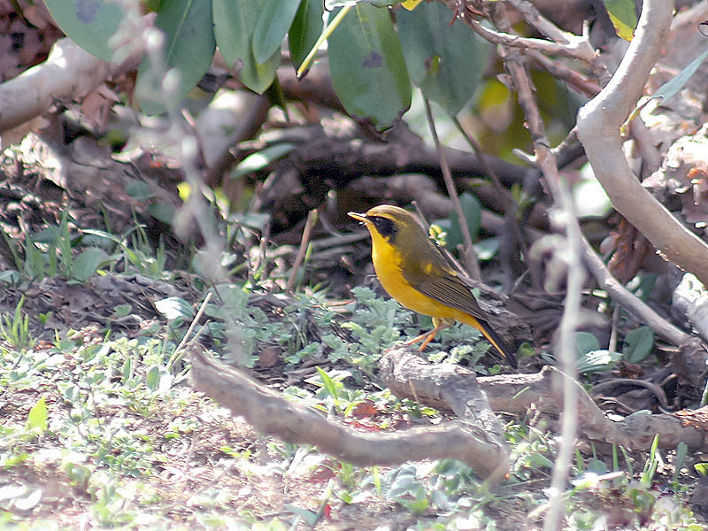 Golden Bush Robin Tarsiger chrysaeus at (11,000 ft.) in Kullu District of Himachal Pradesh, India.